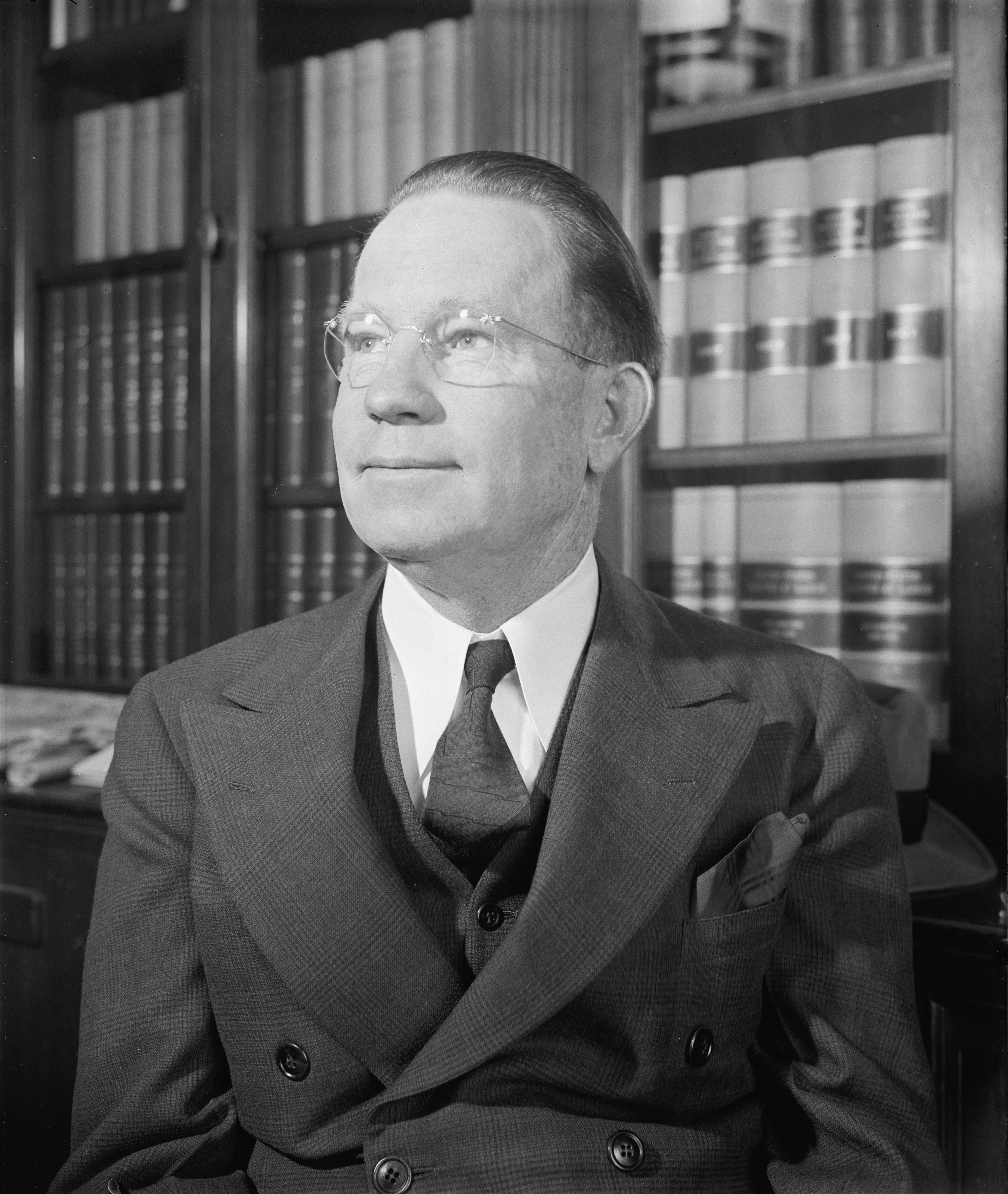 Congressman William M. Colmer of Mississippi.